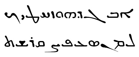 Aramaic alphabet. Aramaic was the mother tongue of Isho Mshiha (Jesus Christ).